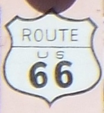 Route 66 sign in Joe & Aggie's Cafe in Holbrook, Az.